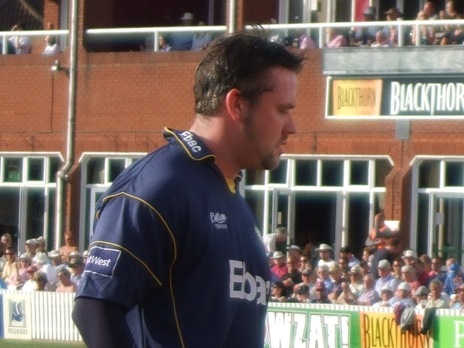 English cricketer Ian Blackwell, during a match at the County Ground, Taunton, in 2009.